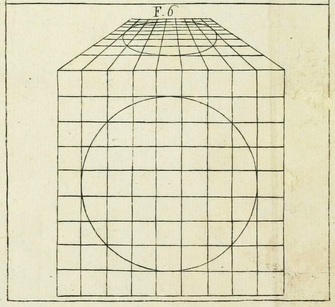 Alberti's diagram showing the perspective transformation of a circle to an ellipse in Della Pittura